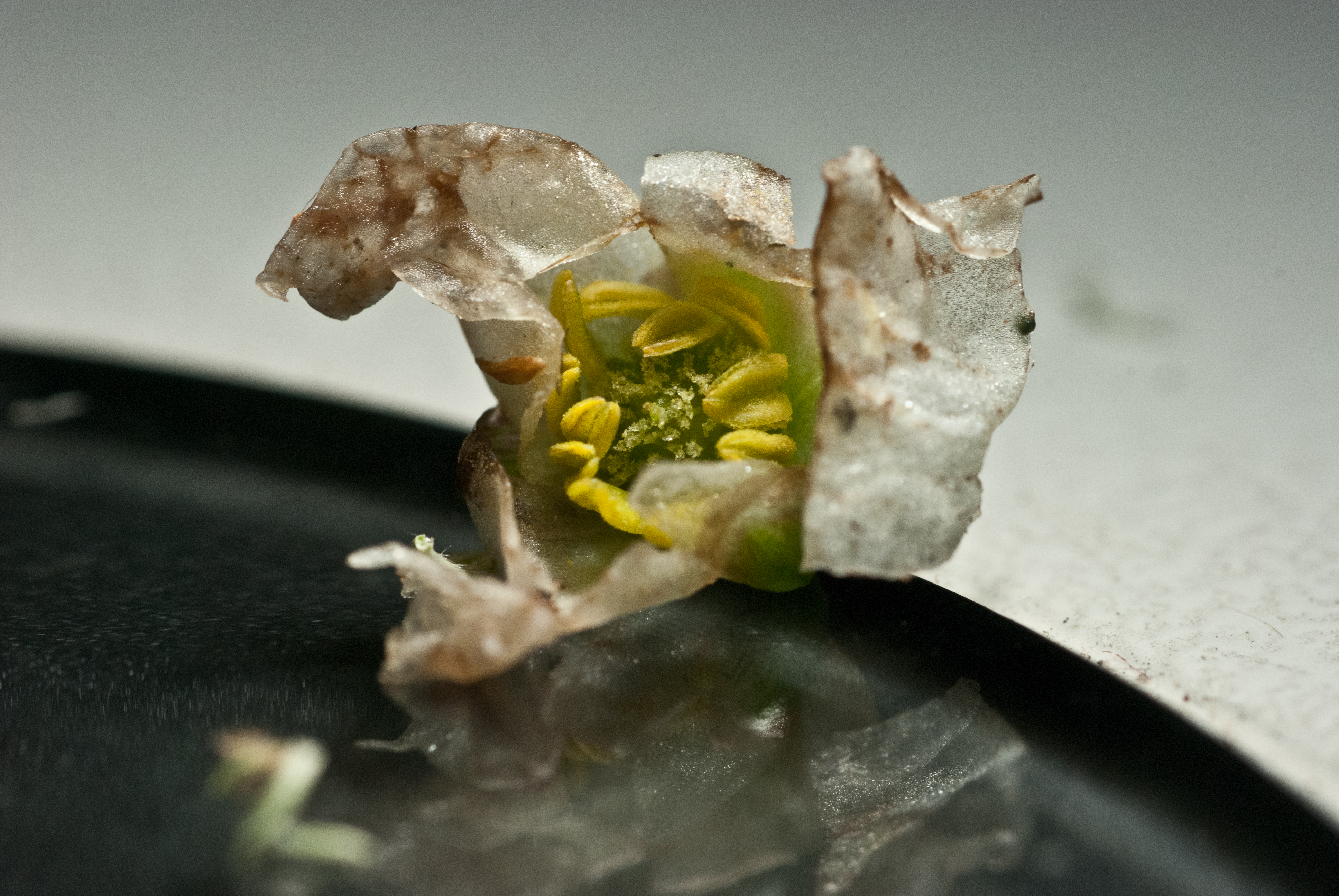 Caldesia grandis